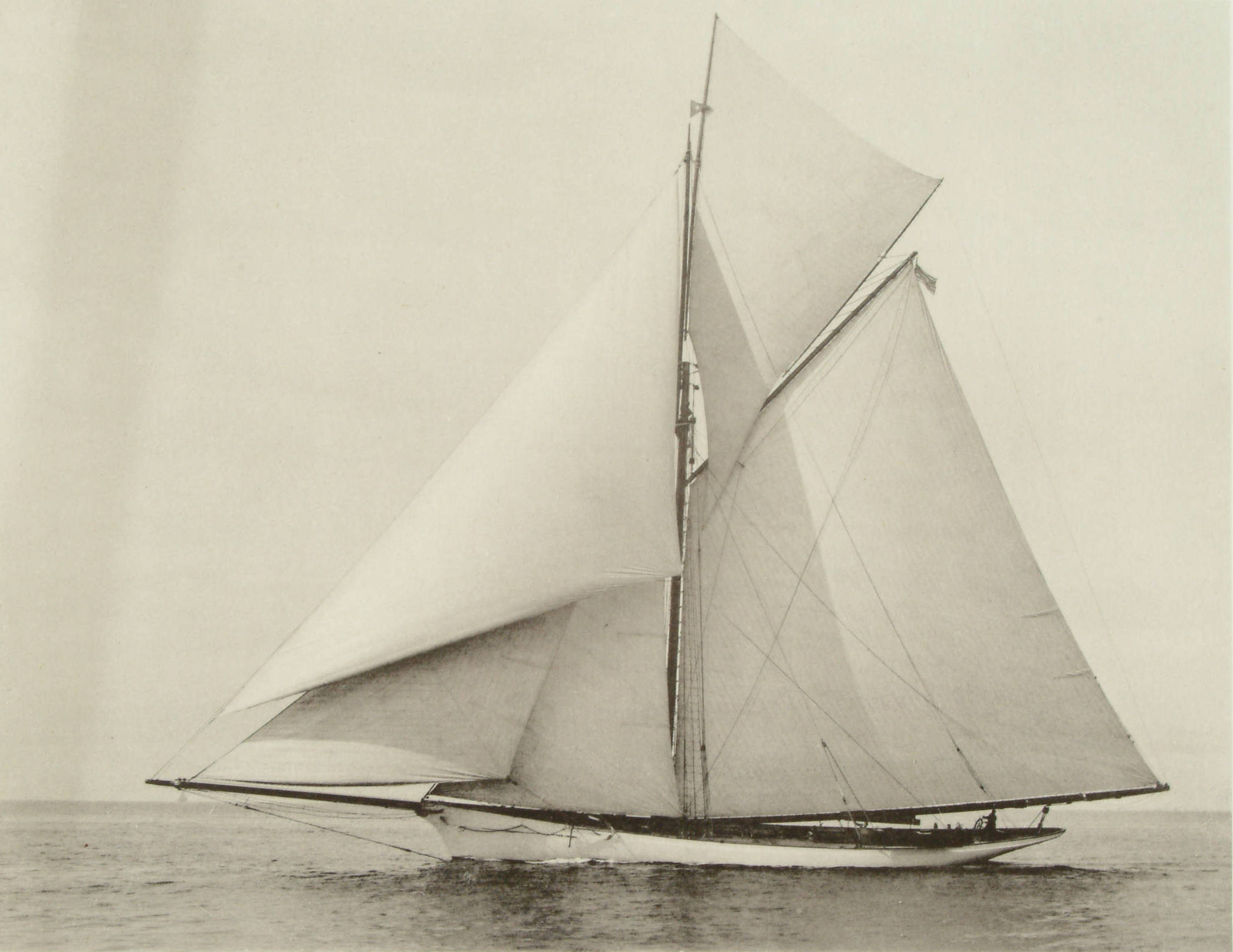 Volunteer, America's Cup 1887 defender, 1895 candidate (Edward Burgess, 1887 - photography: Nanthaniel Livermore Stebbins)